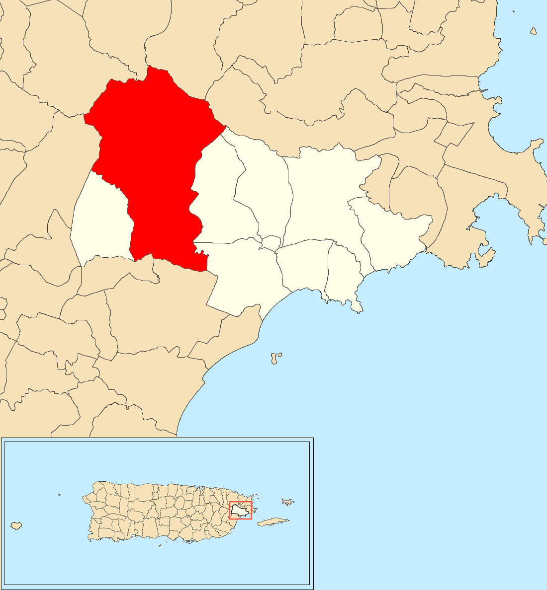 Río Blanco, Naguabo, Puerto Rico locator map